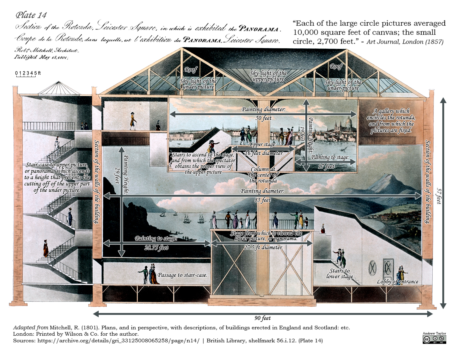 Plate 14: Section of the Rotunda, Leicester Square, in which is exhibited the Panorama. Robert Mitchell, Architect. Published May 15th, 1801. Adapted from Mitchell, R. (1801). Plans, and in perspective, with descriptions, of buildings erected in England and Scotland: etc. London: Printed by Wilson & Co. for the author. Sources: | British Library, shelfmark 56.i.12. (Plate 14). The rotunda was designed and built by Robert Mitchell for Robert Barker, inventor of the painted panorama. This adaptation incorporates the architect's own description and key into the diagram. Original work is in the public domain. This 12/2019 adaptation shared under the Creative Commons 4.0 license.